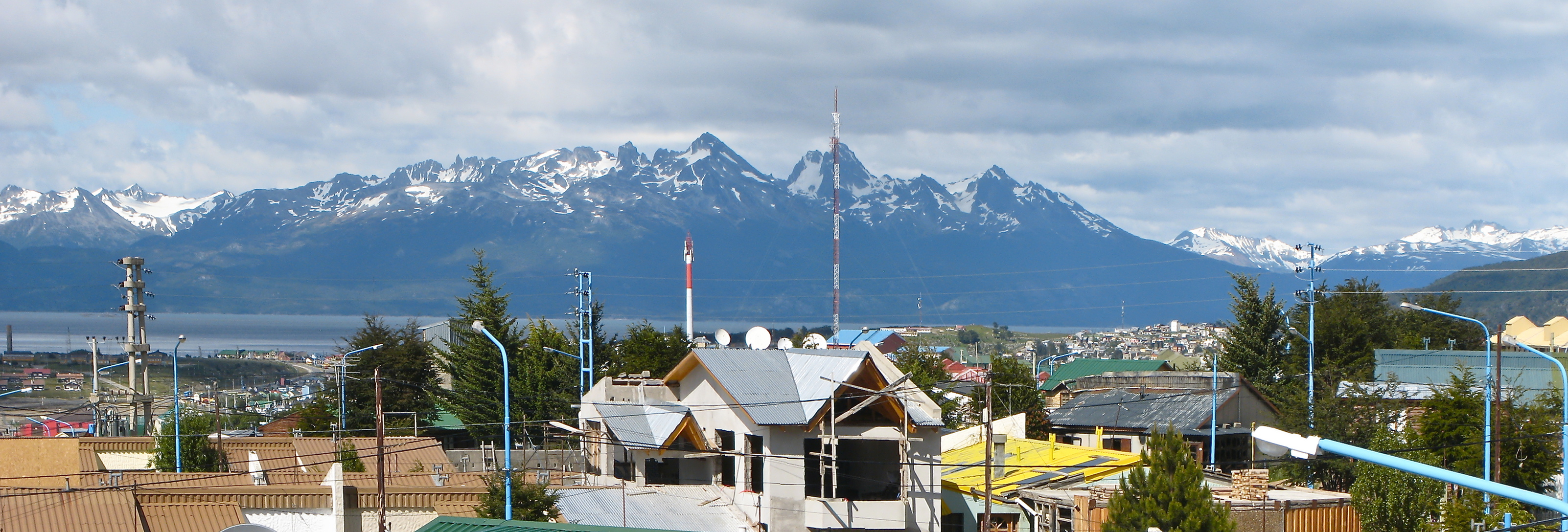 Panorama of Ushuaia , December 30 2007.